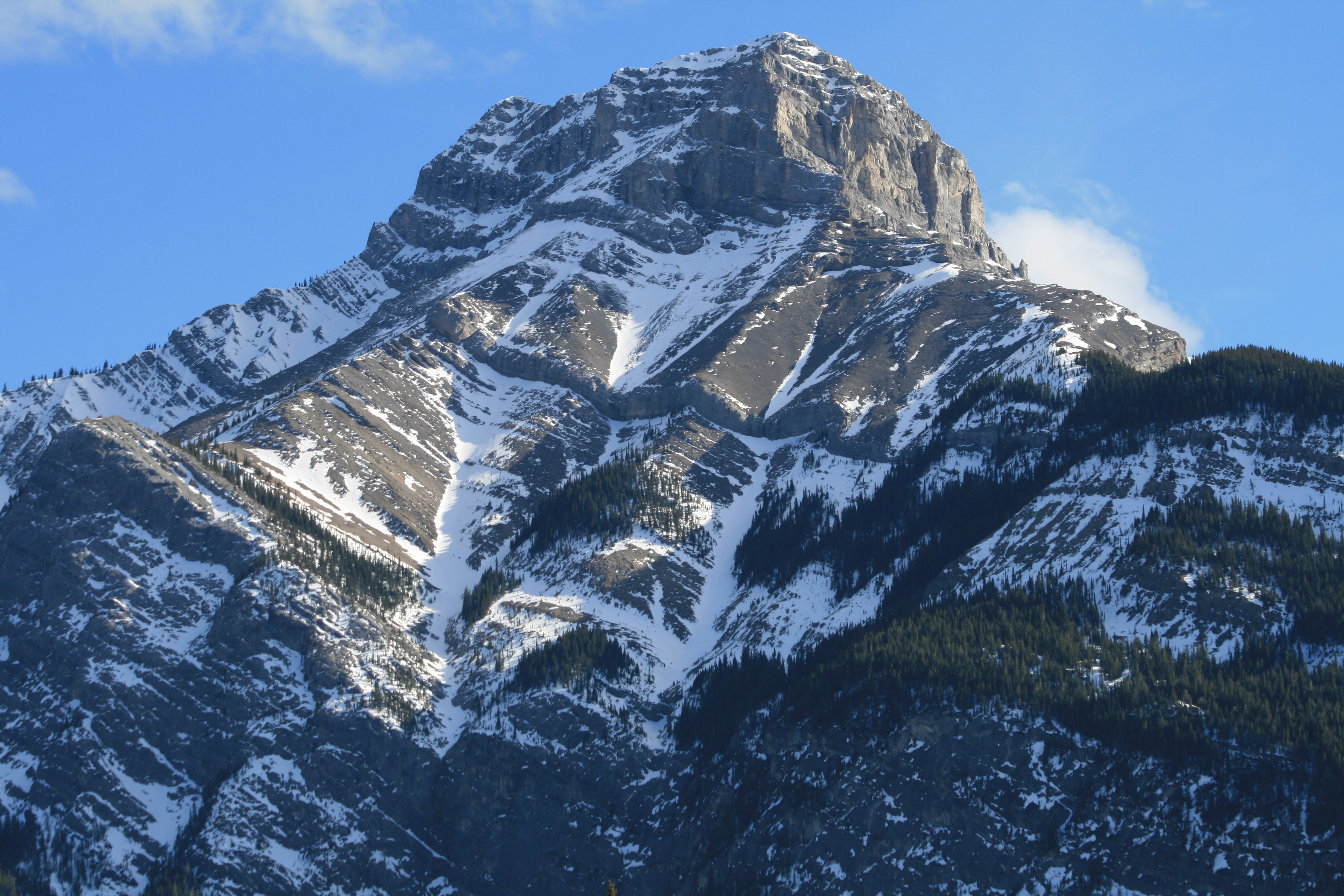 Pic of a mountain just outside of Exshaw Alberta